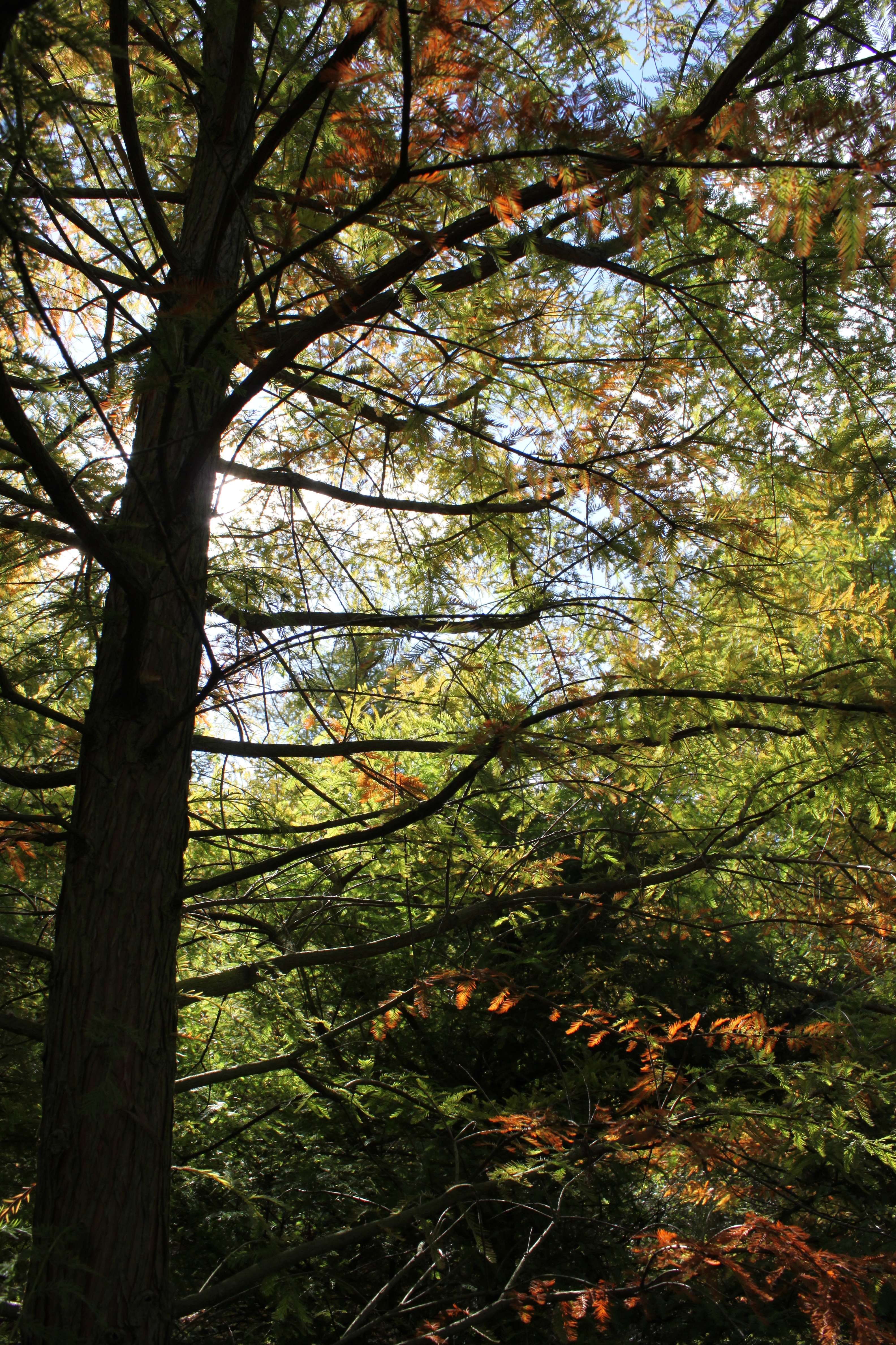 Bald Cypress (Taxodium distichum) in PAN Botanical Garden in Warsaw, Poland